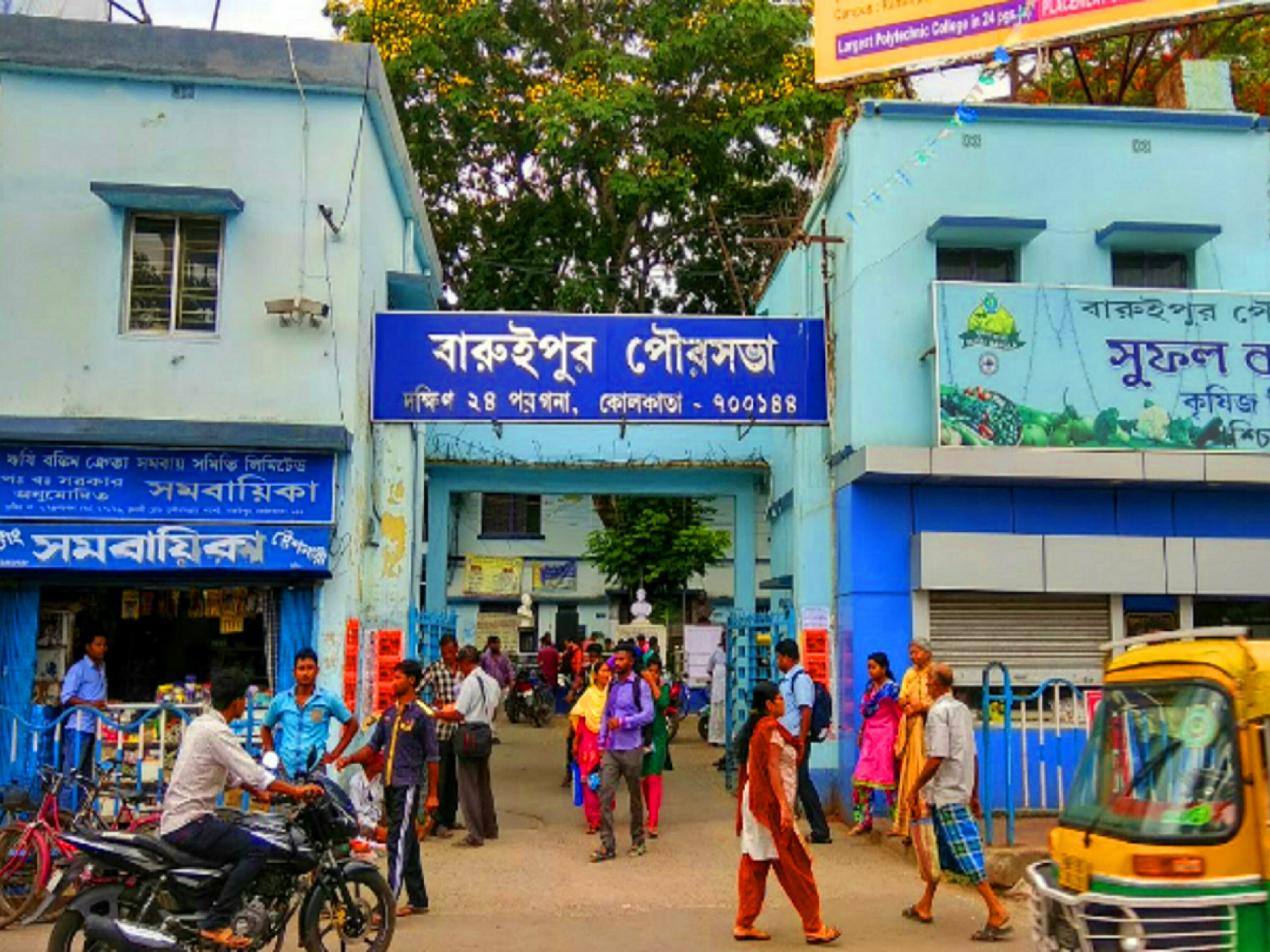 Building of the Baruipur Municipal Corporation